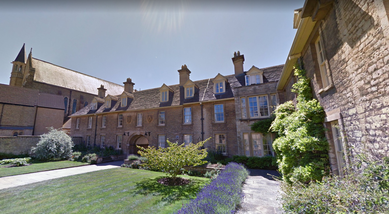 Somerville College, Oxford University (Darbishire quad)